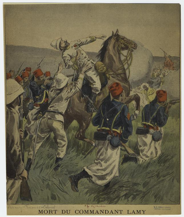 Mort du Commandant Lamy. Death of Commander François Joseph Lamy in Chad.